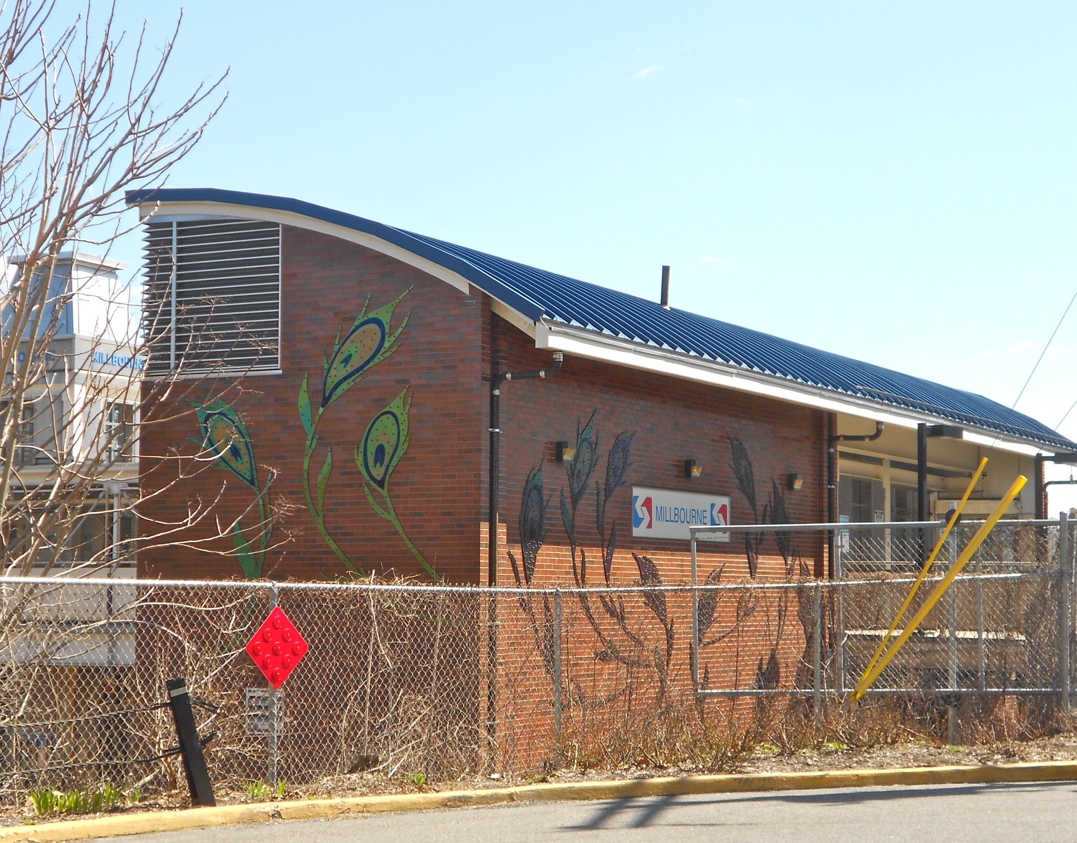 An above ground subway station in Millbourne, Pennsylvania on SEPTA's Market-Frankford Line